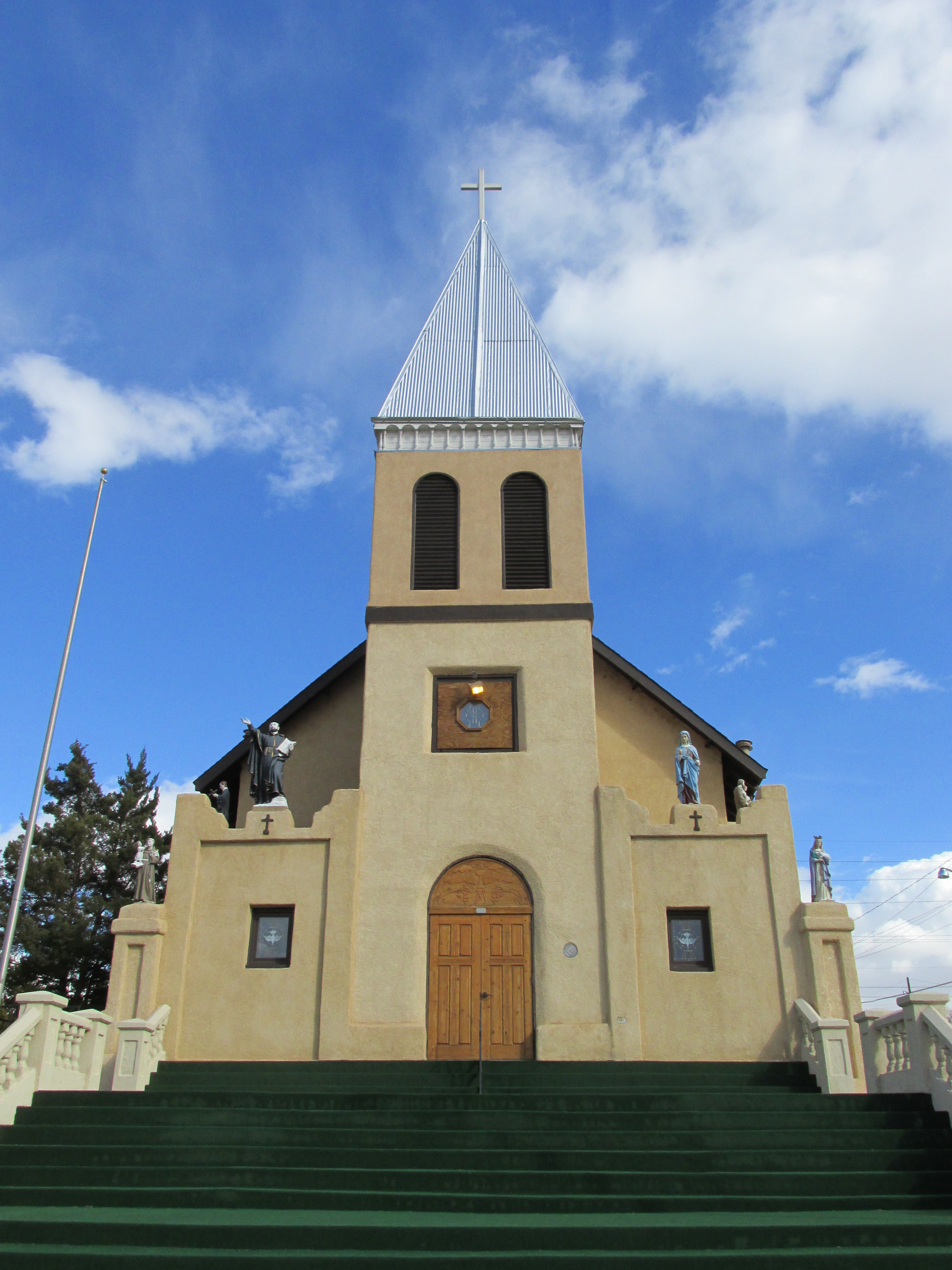 Front, San Ignacio Church, Albuquerque New Mexico